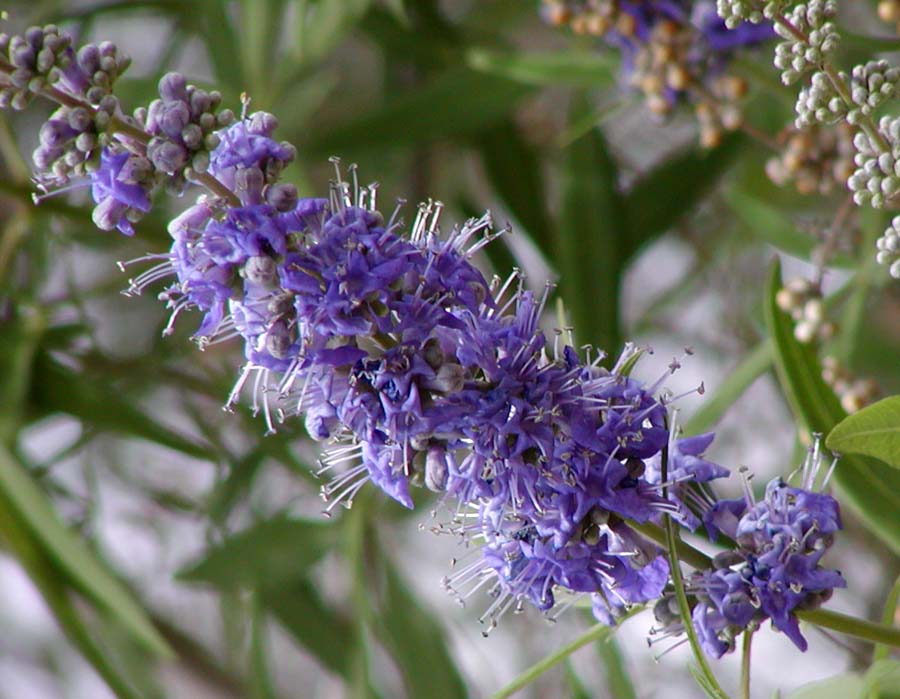 Photo of Vitex agnus-castus (chaste tree) at the Desert Demonstration Garden in Las Vegas